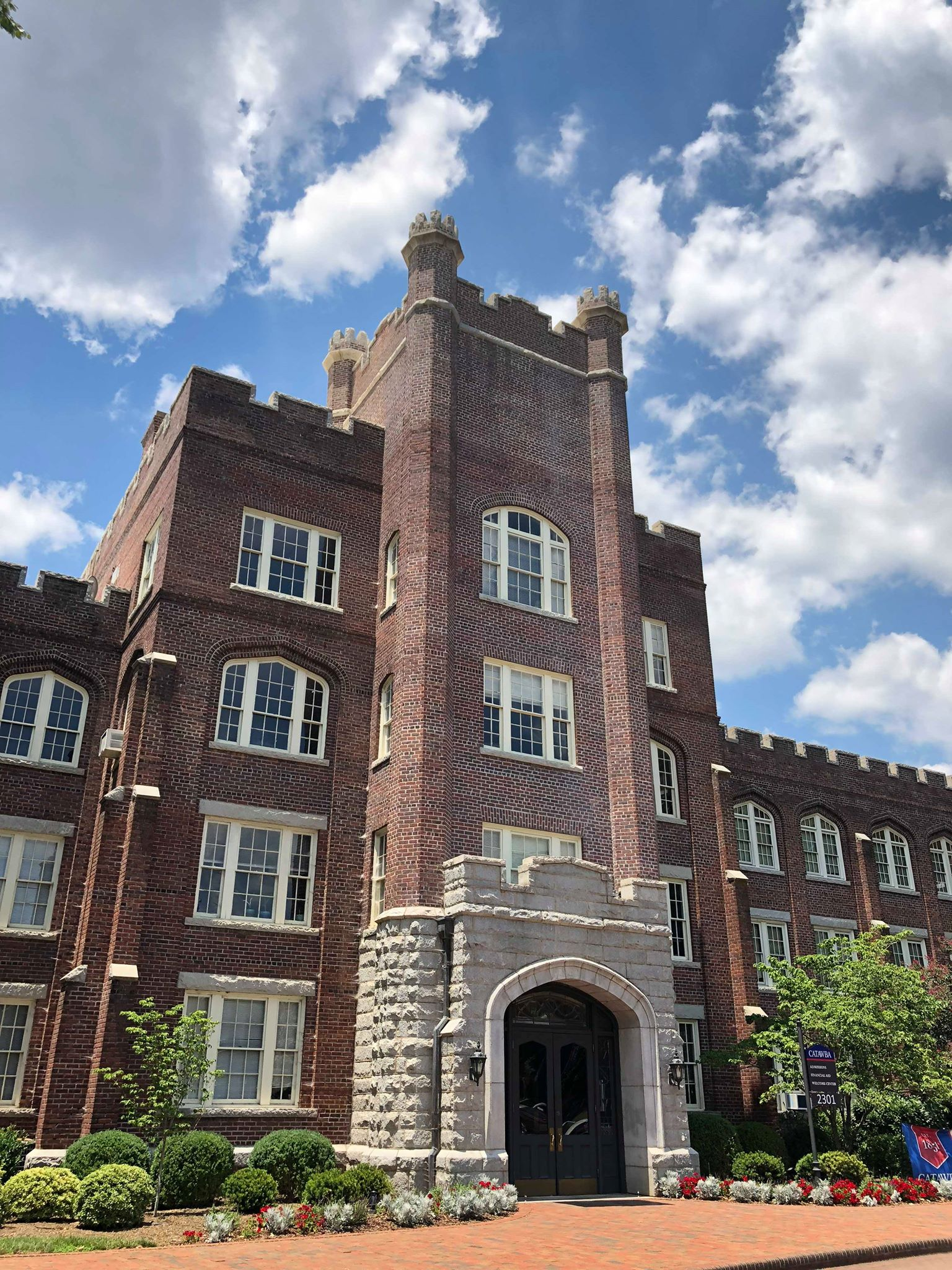 Catawa College. Salisbury, North Carolina.